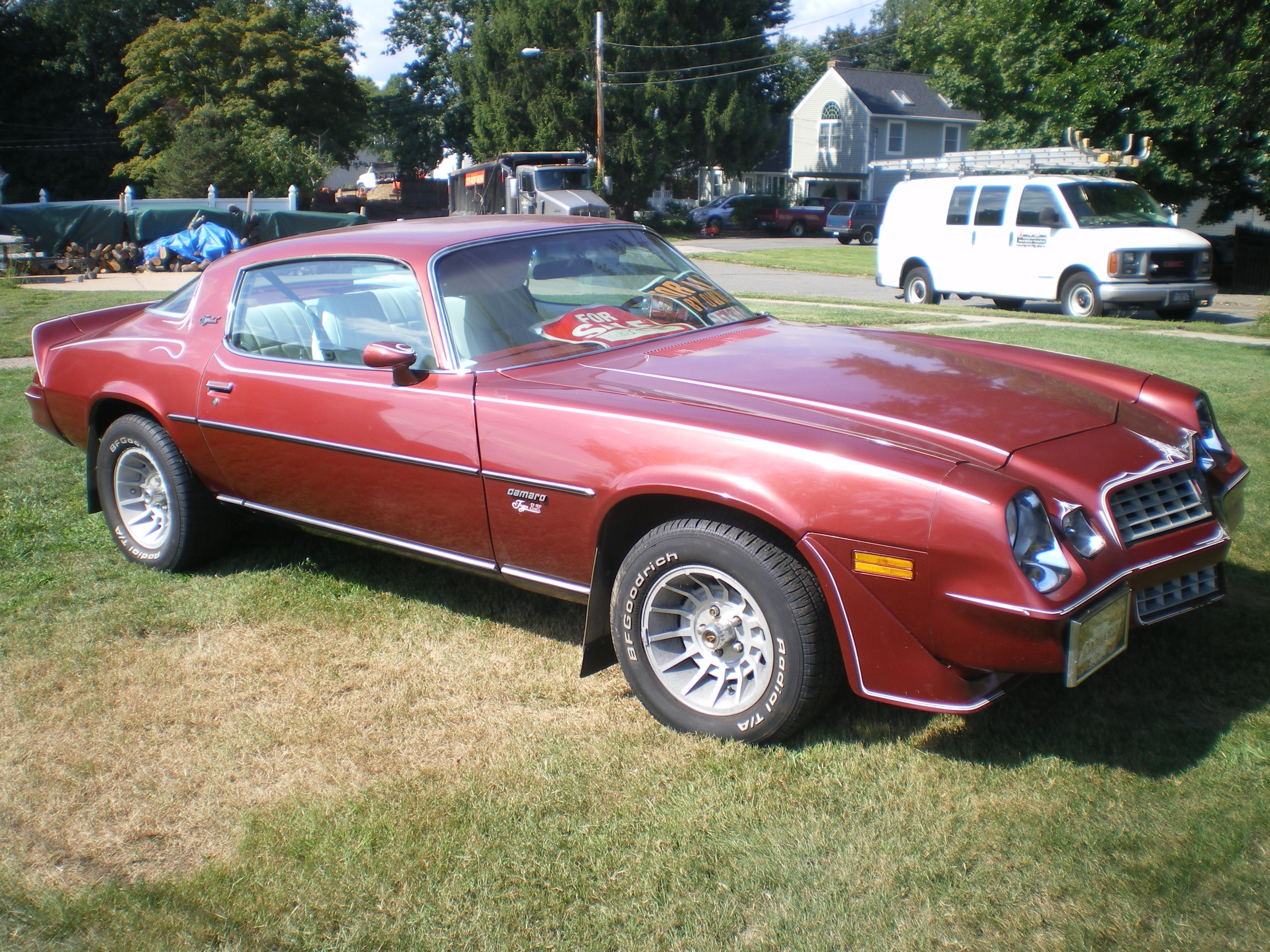 My 1978 Chevrolet Camaro Type LT